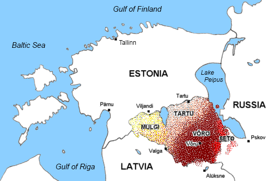 Linguistic map of the contemporary South Estonian Võro: Täämbädse päävä lõunaeesti keelekaart